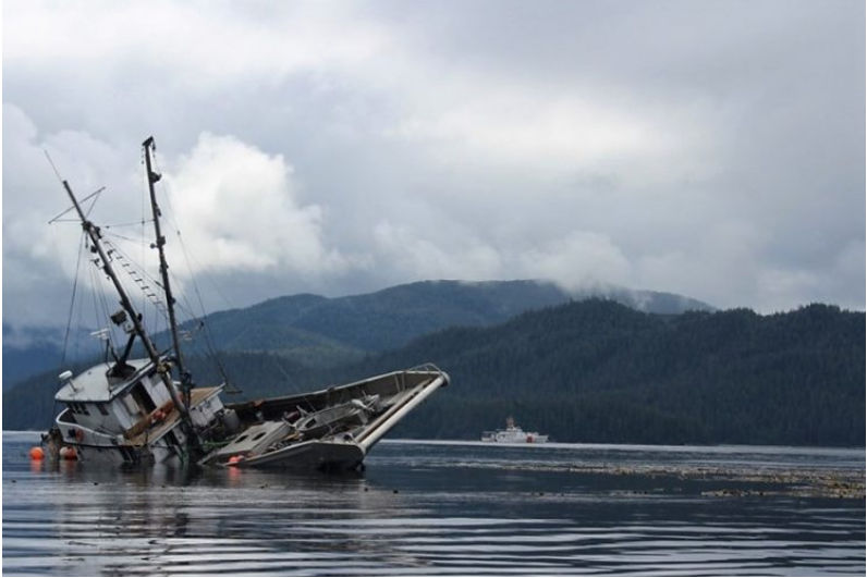 The American fishing vessel Deceptive C after she ran aground in Stikine Strait in the Alexander Archipelago in Southeast Alaska on 2 July 2017